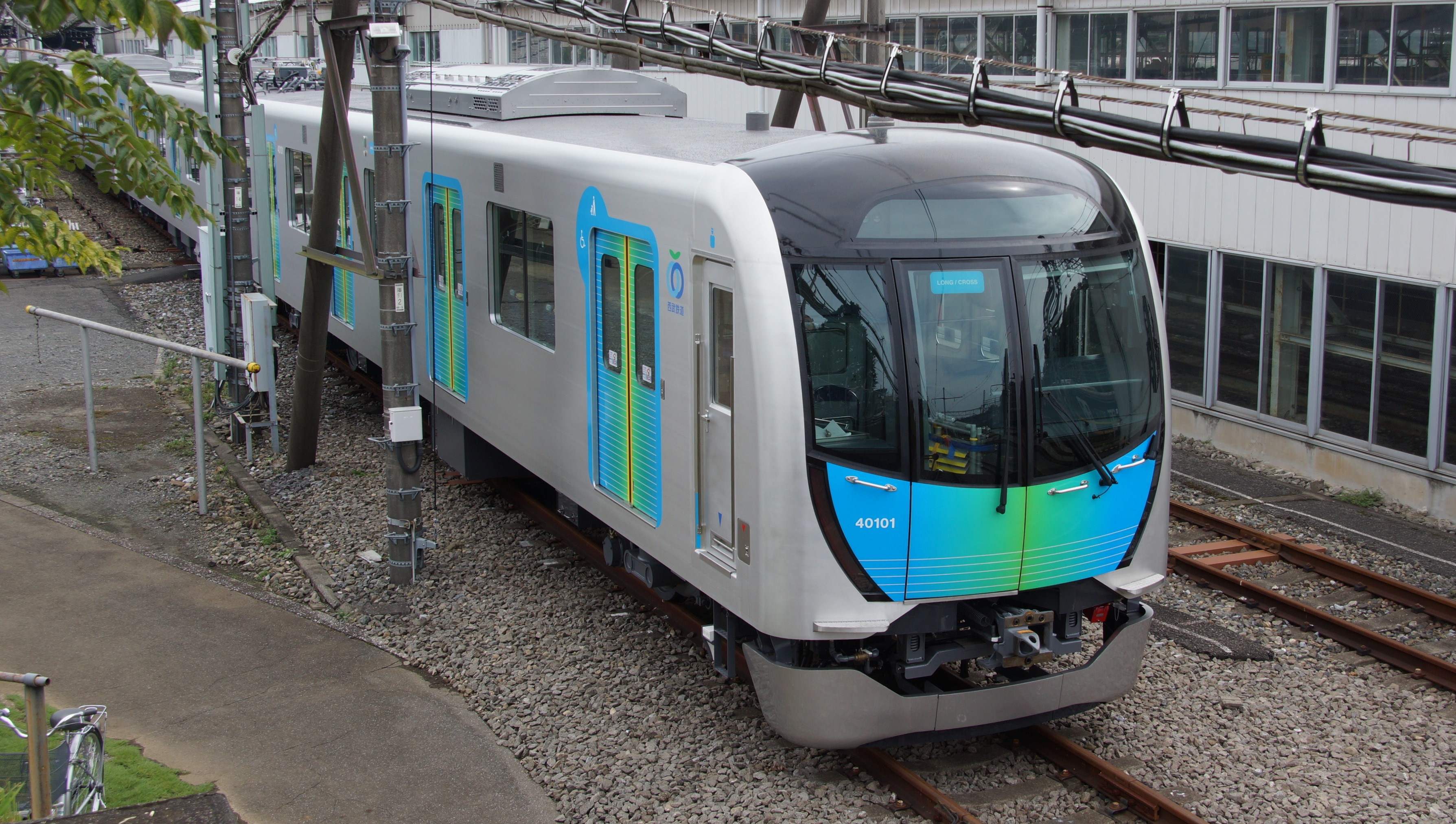 Seibu 40000 series EMU set 40101 at Kotesashi Depot in Saitama Prefecture, Japan